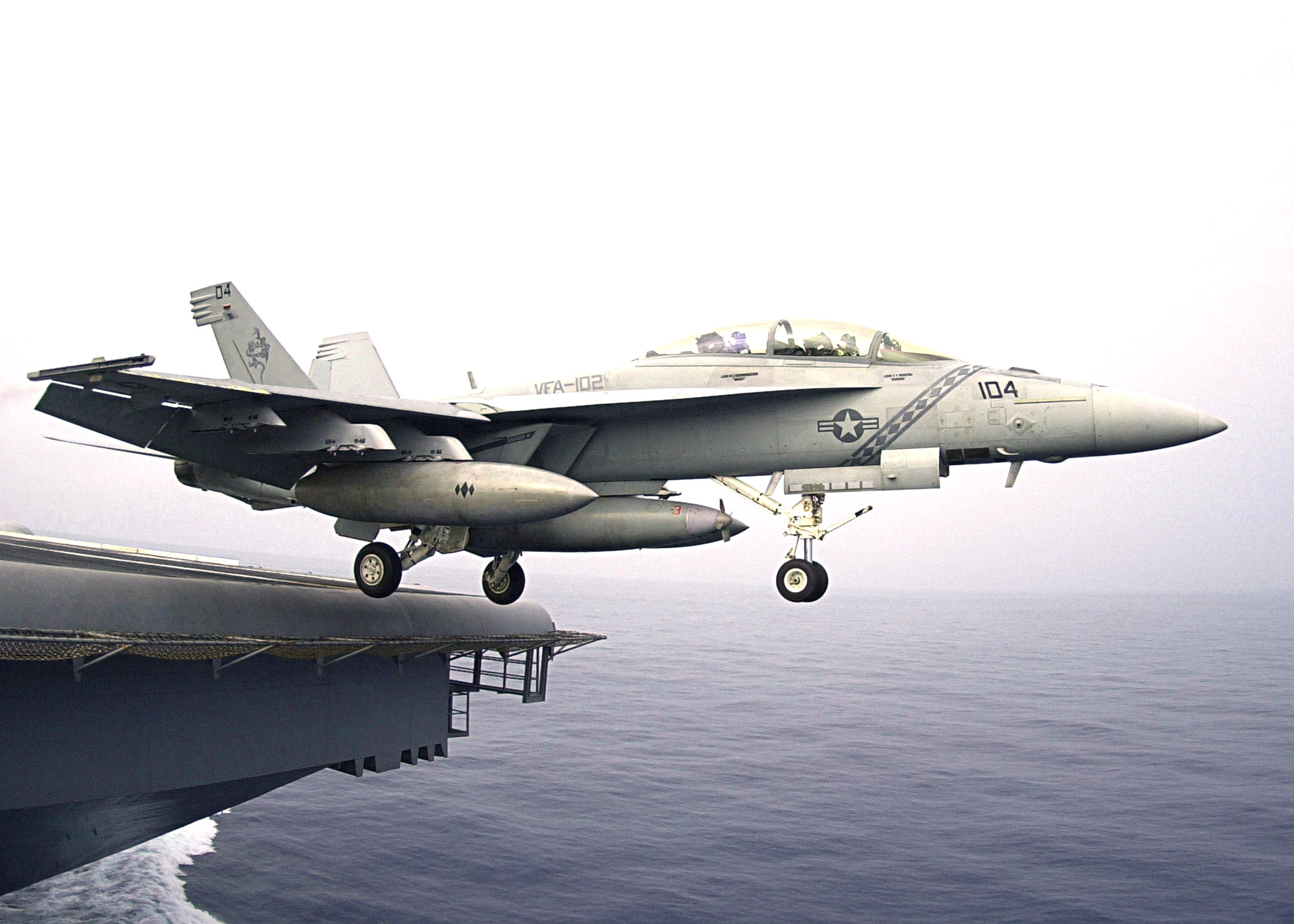 Pacific Ocean (July 19, 2004) - An F/A-18F Super Hornet assigned to the “Diamondbacks” of Strike Fighter Squadron (VFA-102) launches off one of four catapults aboard the aircraft carrier USS Kitty Hawk (CV 63). Kitty Hawk is one of seven carrier strike groups (CSGs) involved in Summer Pulse 2004 which is the deployment of seven carrier strike groups (CSGs), demonstrating the ability of the Navy to provide credible combat capability across the globe, in five theaters with other U.S., allied, and coalition military forces. Summer Pulse is the Navy’s first deployment under its new Fleet Response Plan (FRP). U.S. Navy photo by Photographer's Mate 3rd Class Jonathan Chandler (RELEASED) For more information go to